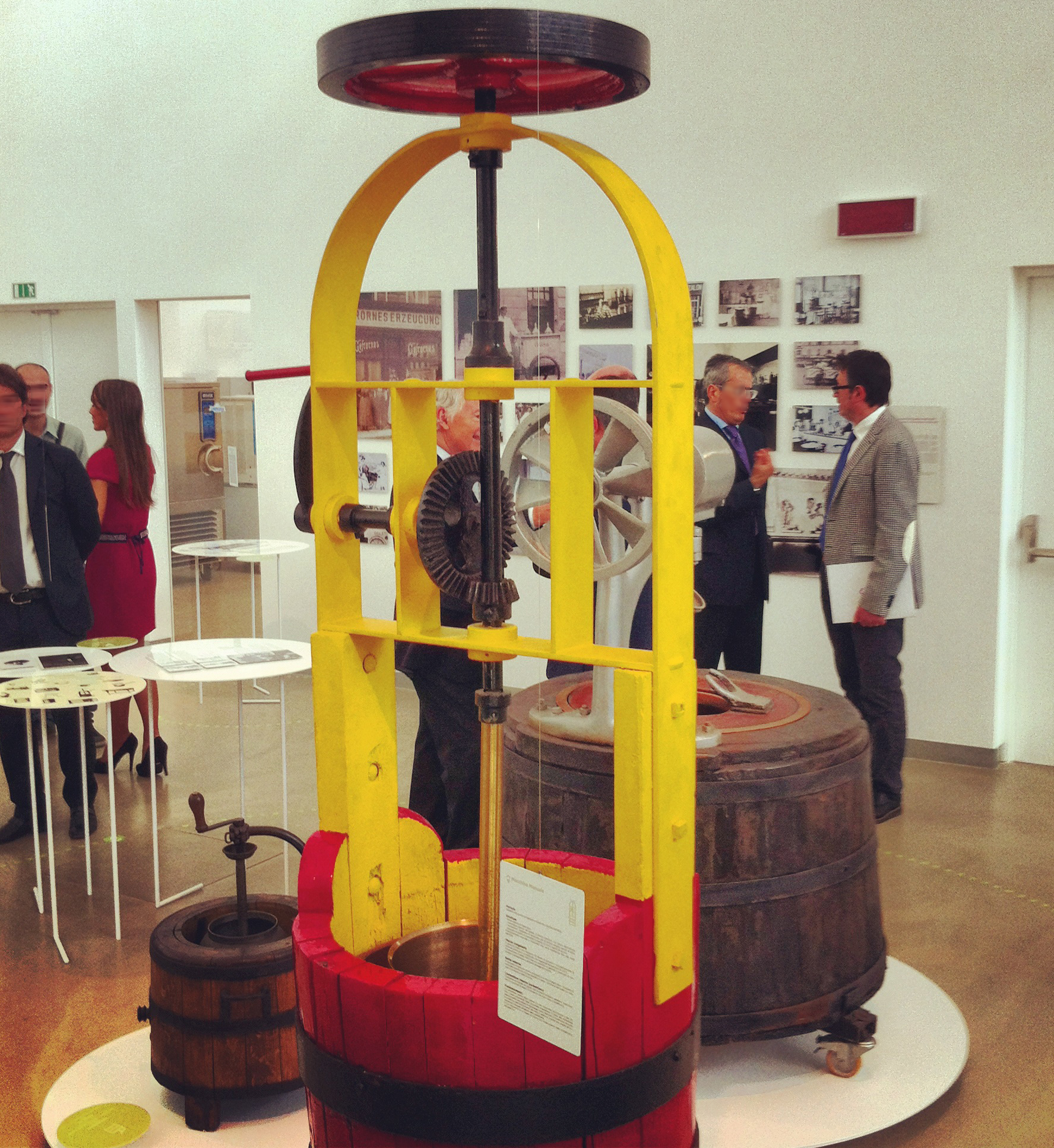 Manual machine on display at the Gelato Museum Carpigiani - Italy